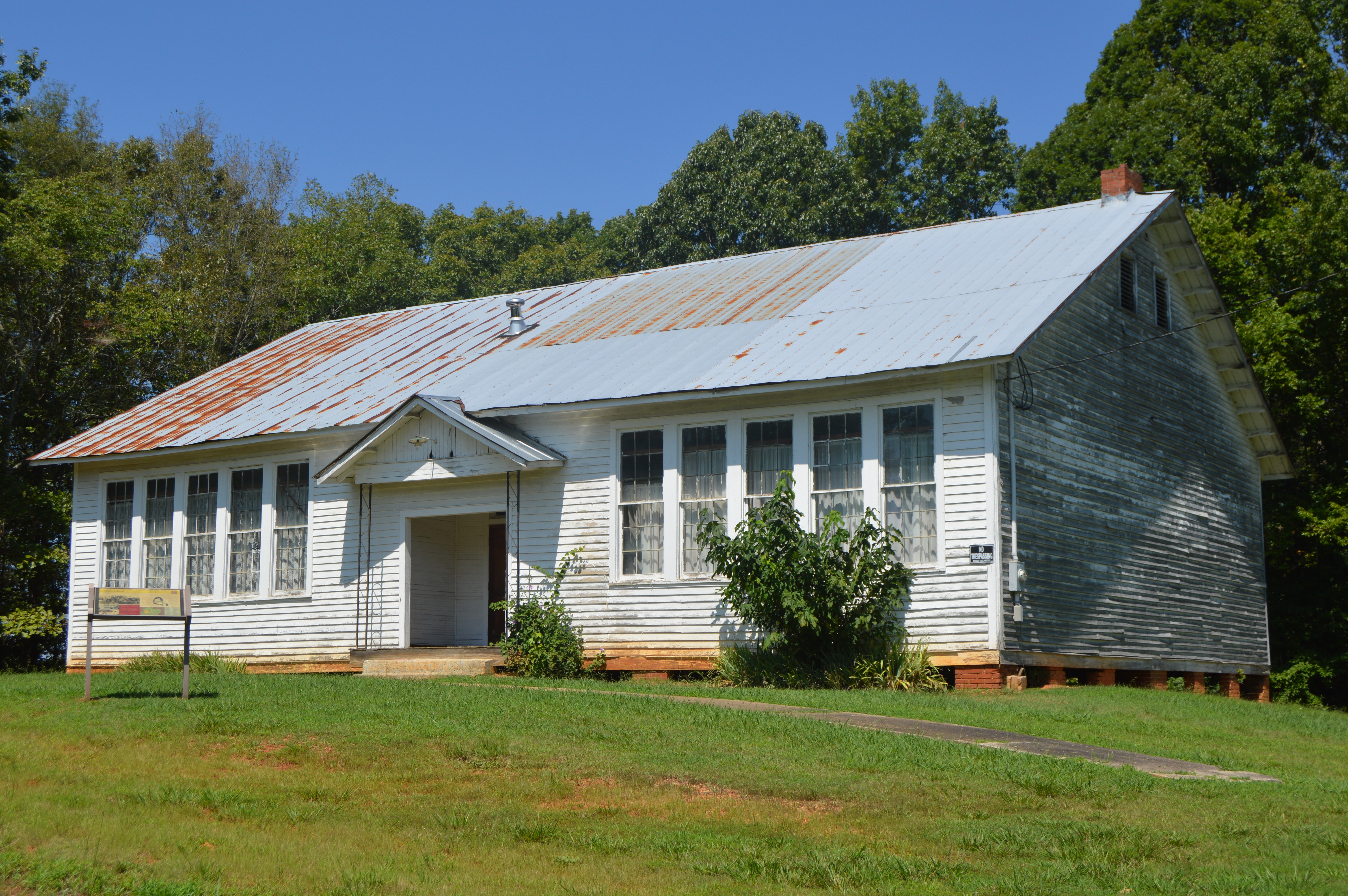 Front and eastern end of the Salem School, located on Cargills Creek Road west of Chase City in Charlotte County, Virginia, United States. Built in 1924, it is listed on the National Register of Historic Places.